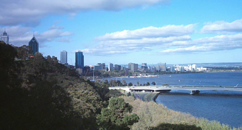 This picture was taken from lookout near the entrance of Glass walkway in Kings Park on Monday 26 September 2005. It's looking east over Mounts Bay rd towards the Narrows Bridge and Perth water. The City skyline can be seen behind the edge of Kings Park I have have adjusted the brightness and contrast levels to enhance the image. Also cropped the image. As the photographer I request acknowledgement of such with reproduction outside wikipedia but I hereby release all rights to image --Gnangarra